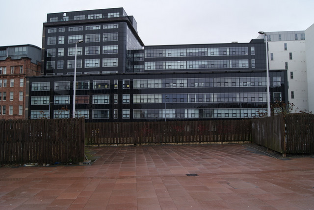 The Evening Times building On Albion Street, apparently modelled on the "Black Lubyanka" building of the Daily Express in London.